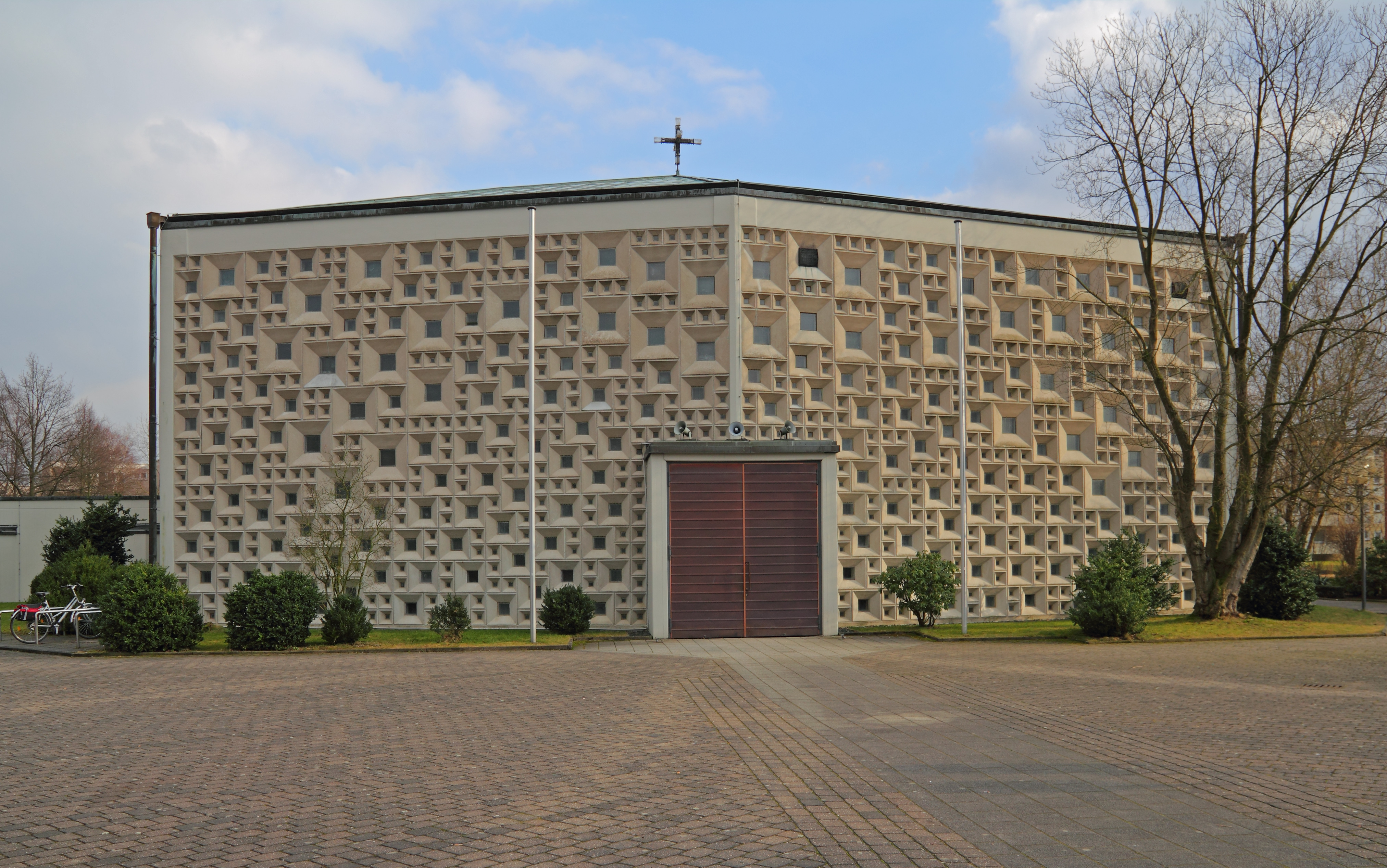 Church of the Holy Cross in Leverkusen-Rheindorf